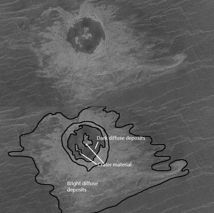 mapping of Venus crater